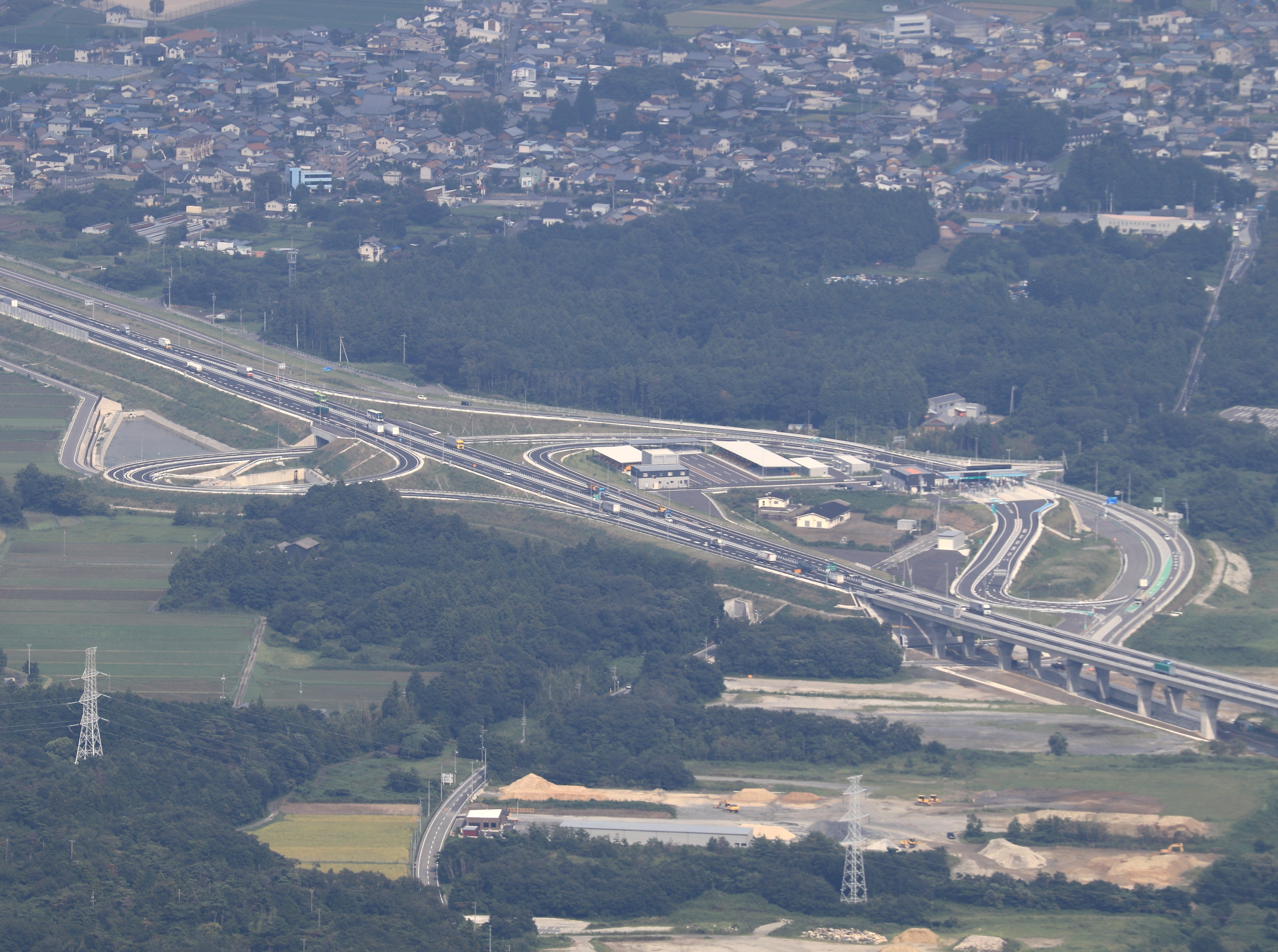 Komono Interchange on Shin-Meishin Expressway seen from Mount Gozaisho (Suzuka Mountains) in Komono, Mie Prefecture, Japan. Canon EOS Kiss X9